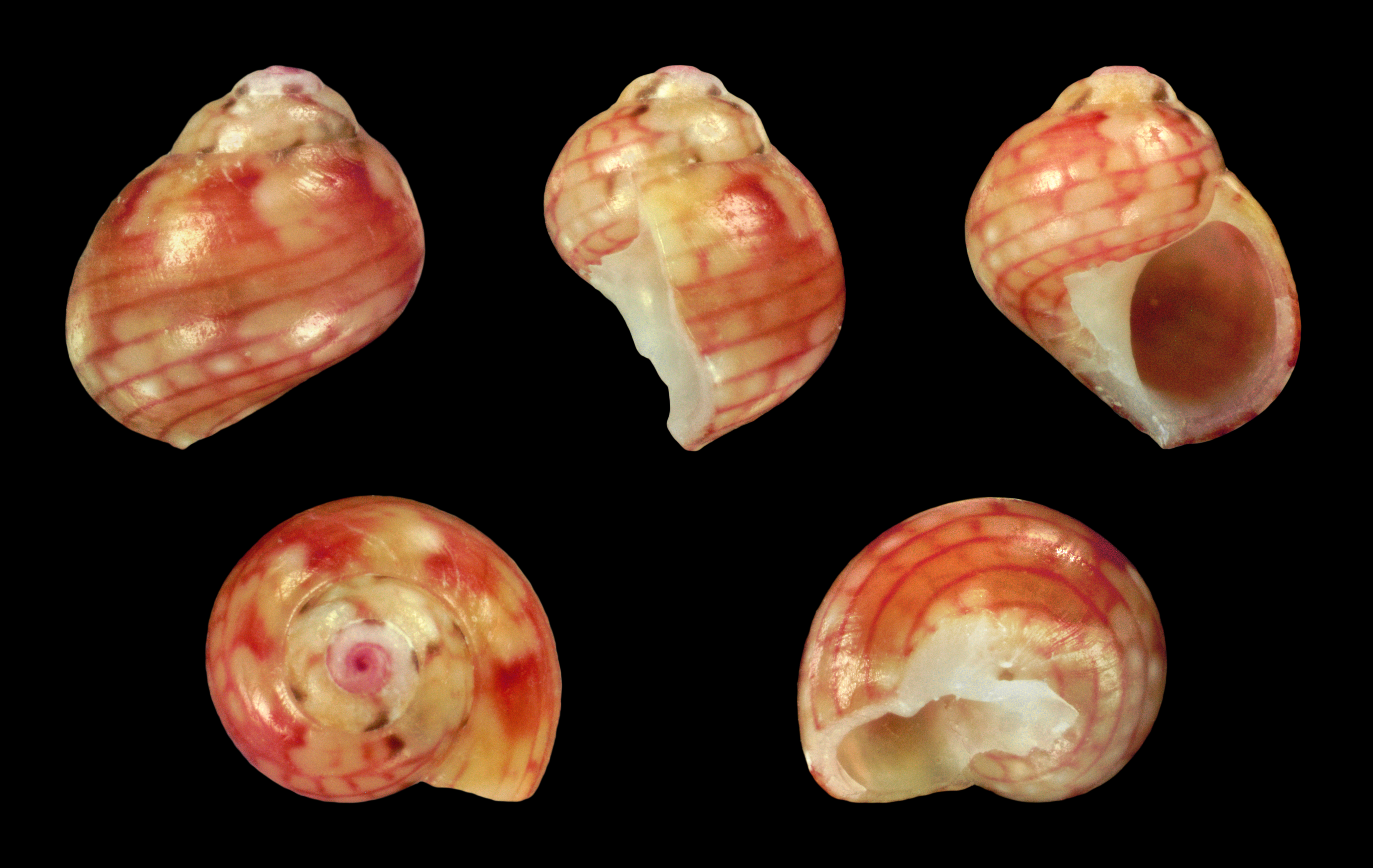 Eulithidium tessellatum (Potiez & Michaud, 1838), Tessellate Pheasant; Height 0.22 cm; Originating from Puerto Rico; Shell of own collection, therefore not geocoded. Dorsal, lateral (right side), ventral, back, and front view.